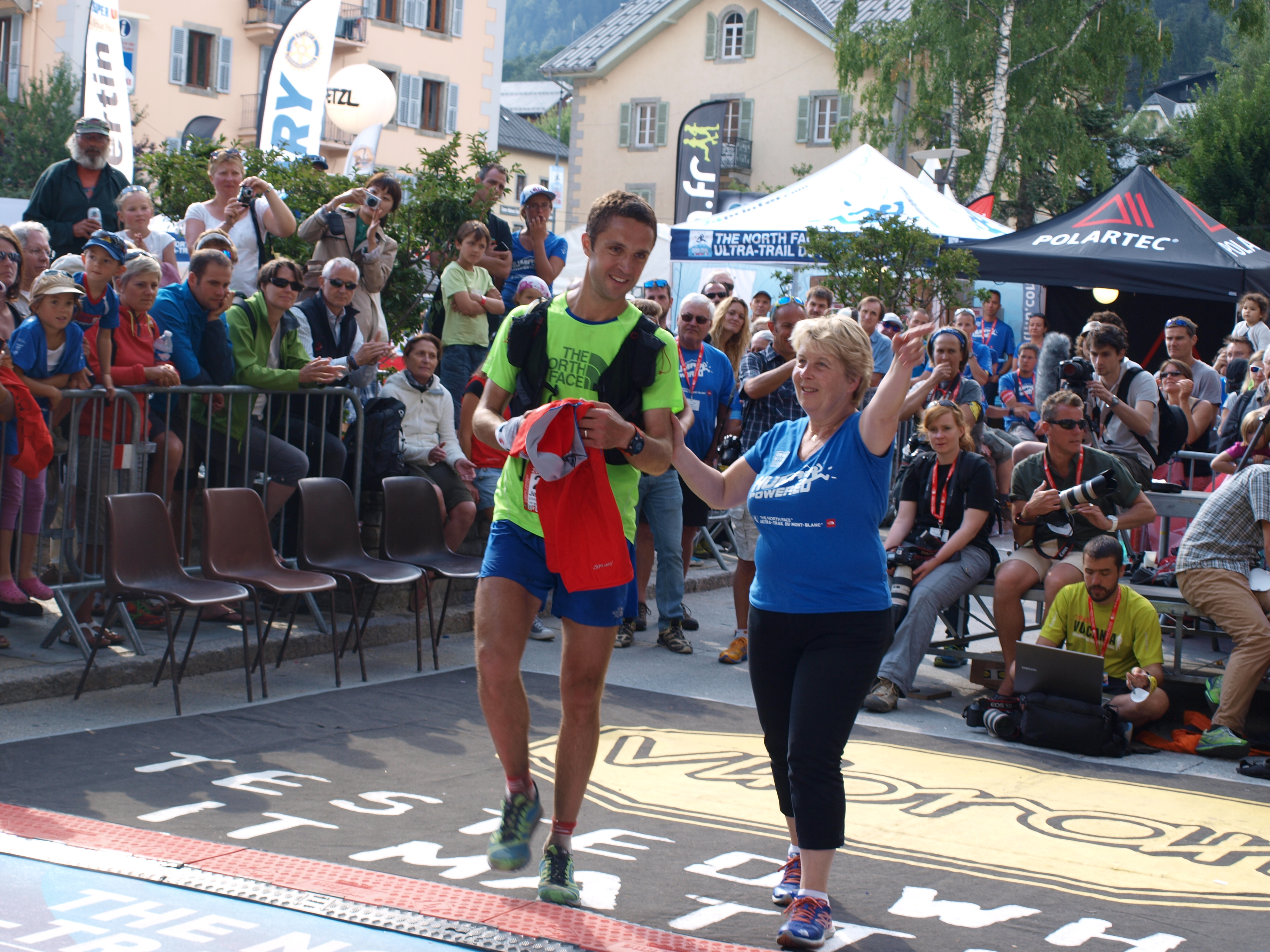 Jez Bragg at 2013's Ultra-Trail du Mont Blanc finish line